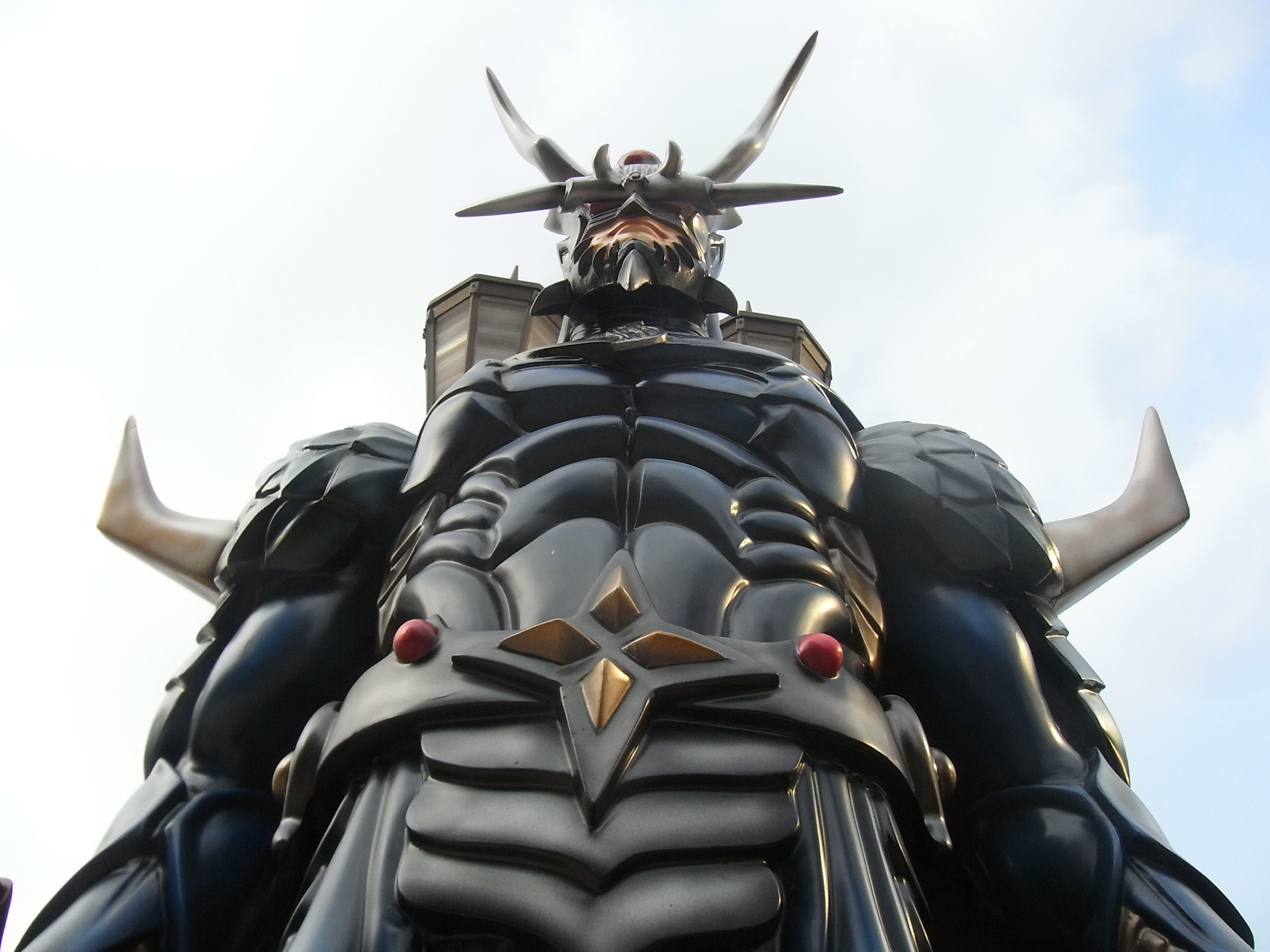 香港漫畫星光大道 邱福龍, Hong Kong Avenue of Comic Stars, Kowloon Park, Nathan Road, Tsim Sha Tsui, Hong Kong